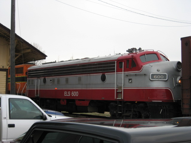 The Escanaba and Lake Superior Railroad's EMD F7 built in 1951 working mainline freight service, one of the last F7's to be doing so.